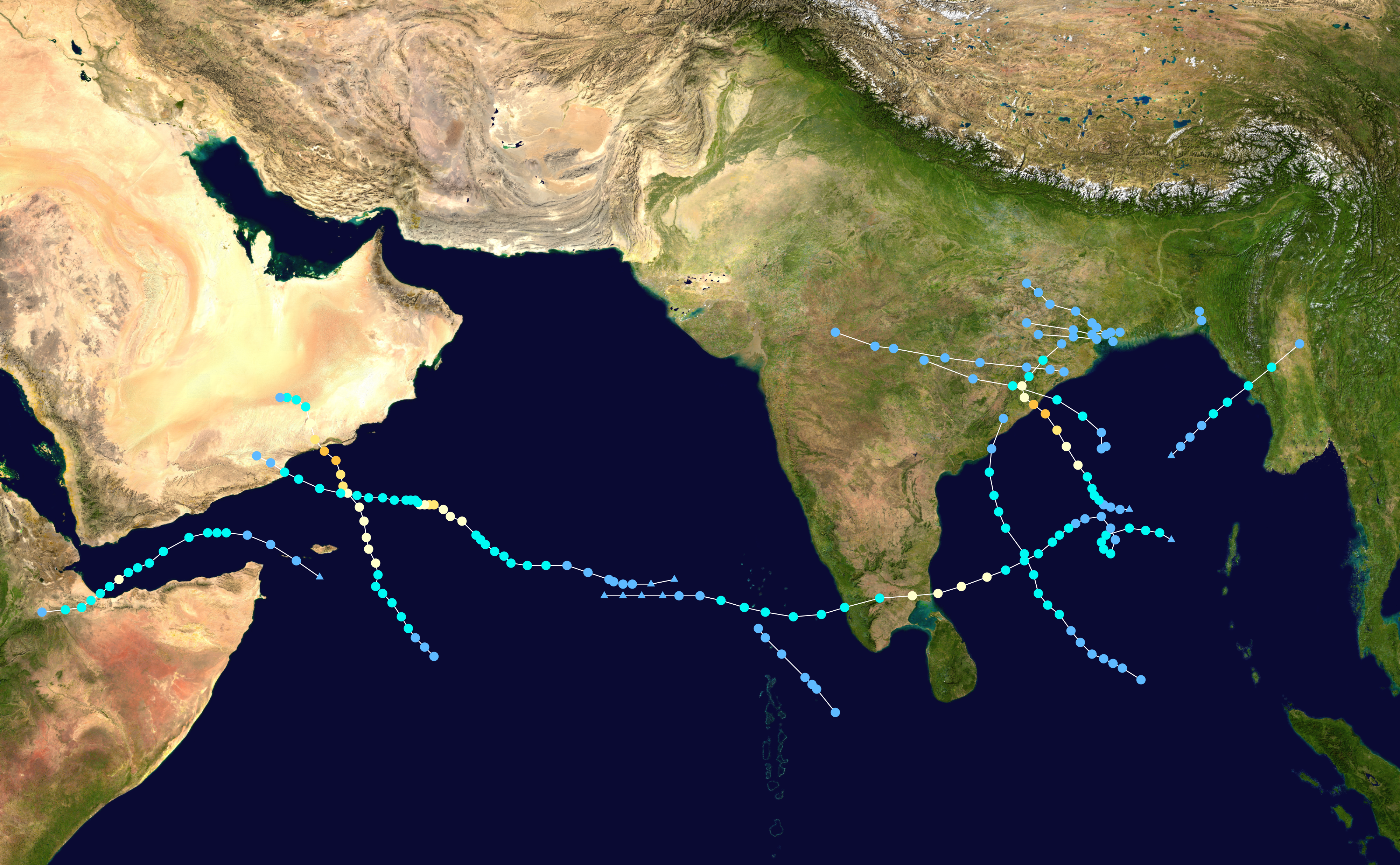 This map shows the tracks of all tropical cyclones in the 2018 North Indian Ocean cyclone season. The points show the location of each storm at 6-hour intervals. The colour represents the storm's maximum sustained wind speeds as classified in the Saffir-Simpson Hurricane Scale (see below), and the shape of the data points represent the type of the storm. Map generation parameters: --res 4000 --extra 1 --dots 0.2 --lines 0.04 --xmin 40 --xmax 100 --ymin 0 --ymax 35 Saffir–Simpson scale Tropical depression≤38 mph≤62 km/h Category 3111–129 mph178–208 km/h Tropical storm39–73 mph63–118 km/h Category 4130–156 mph209–251 km/h Category 174–95 mph119–153 km/h Category 5≥157 mph≥252 km/h Category 296–110 mph154–177 km/h Unknown Storm type Tropical cyclone Subtropical cyclone Extratropical cyclone / Remnant low / Tropical disturbance / Monsoon depression